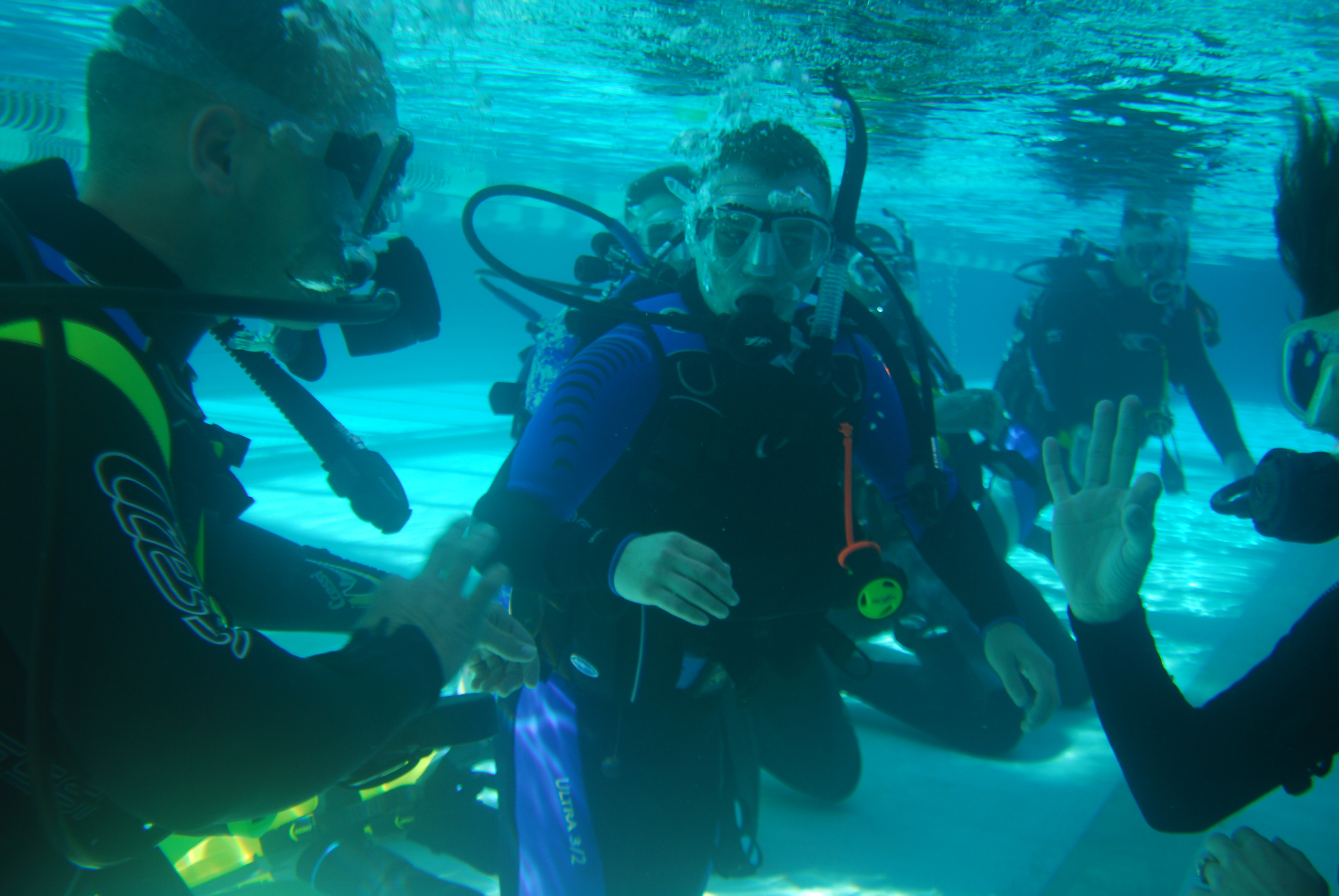 MARINE CORPS BASE CAMP LEJEUNE, N.C. - Lucin Broekhuizen, a diving instructor with AA Diving here on Lejeune, flashes Lance Cpl. Chris Boreland the O.K. sign while they practice scuba drills at Area 2 pool with his fellow Marines from the Wounded Warrior Barracks Oct. 3. (Official U.S. Marine Corps photo by Lance Cpl. Brandon R. Holgersen)(released)